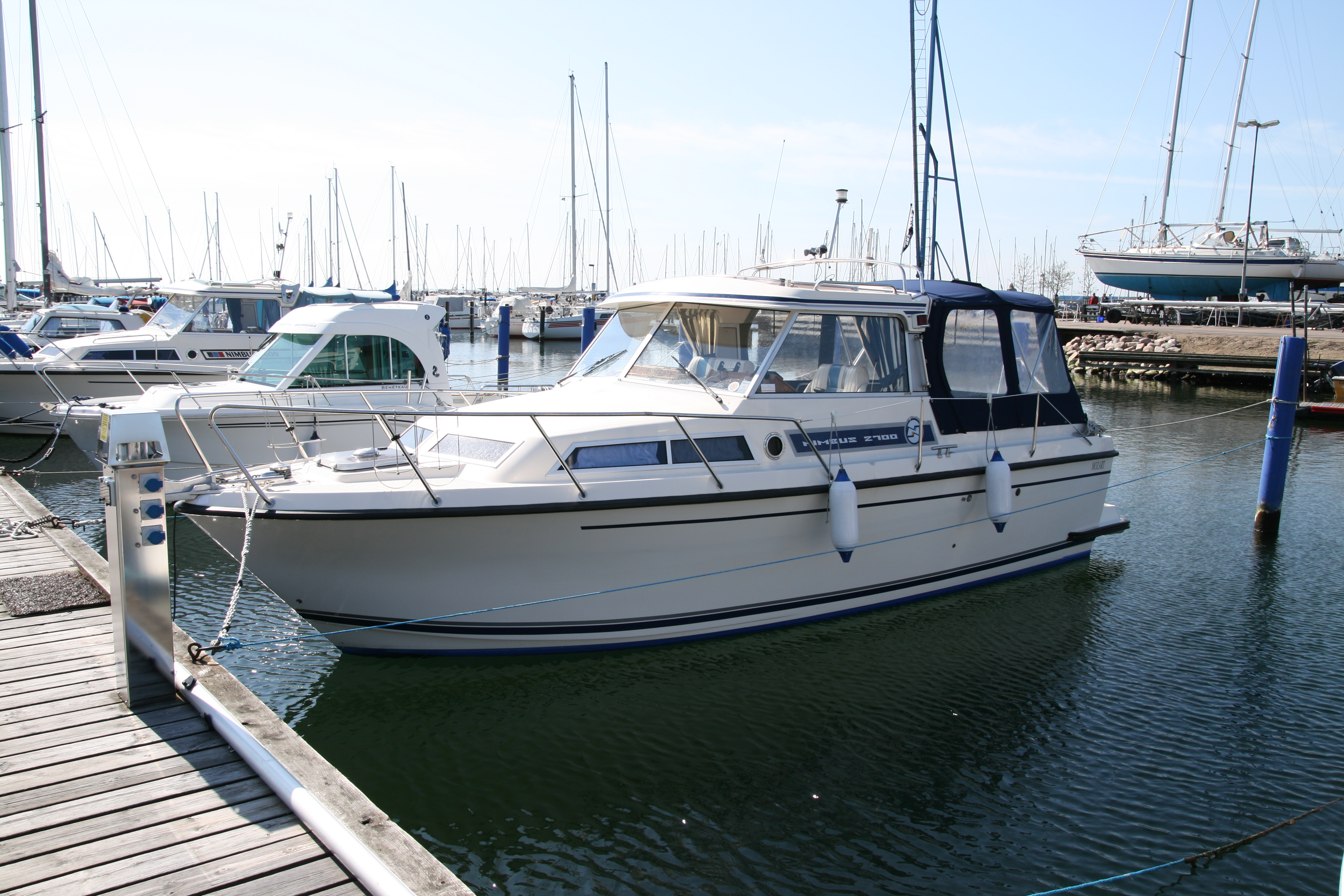 A Nimbus 2700 motorcruiser, found in the Råå marina south of Helsingborg, Sweden.